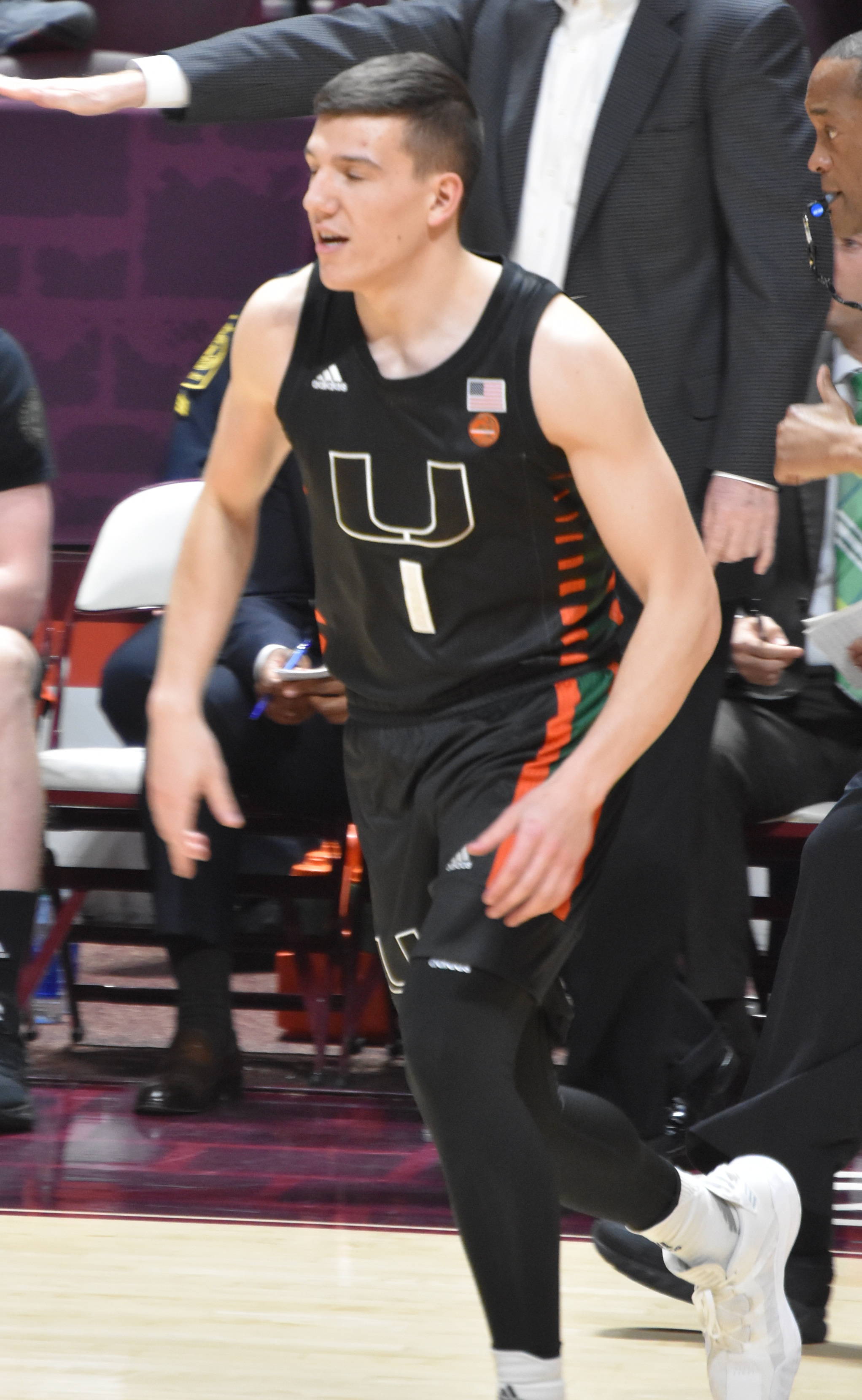 D. J. Vasiljevic returns to the floor after a media timeout at Cassell Coliseum.